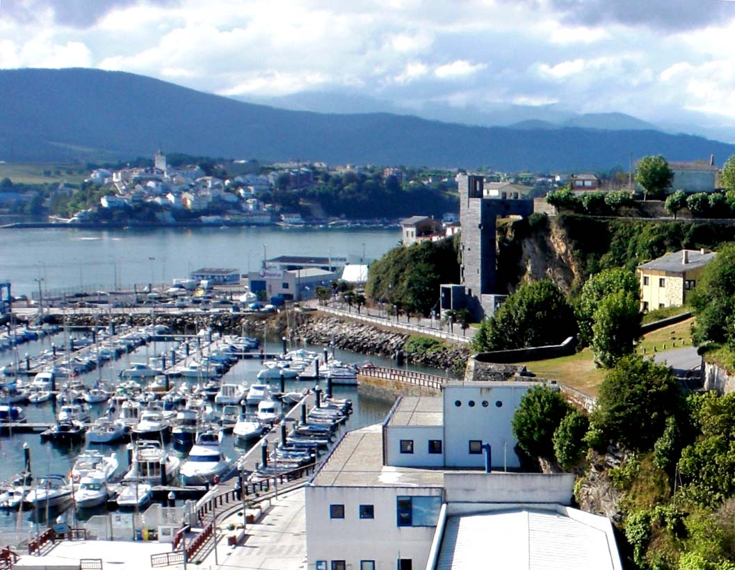 Ribadeo's Marina and Panoramic Elevator